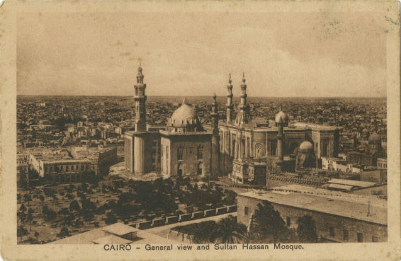 Postcard showing the two mosques near the Citadel